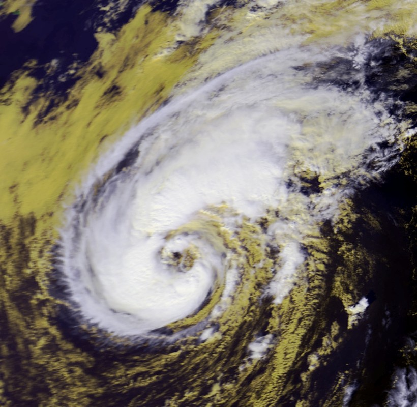 Hurricane Karen on October 13 at approximately 1650 UTC. This image was produced from data from NOAA-15, provided by NOAA.